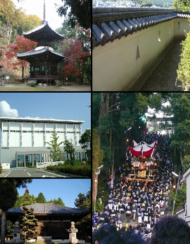 Miki montage